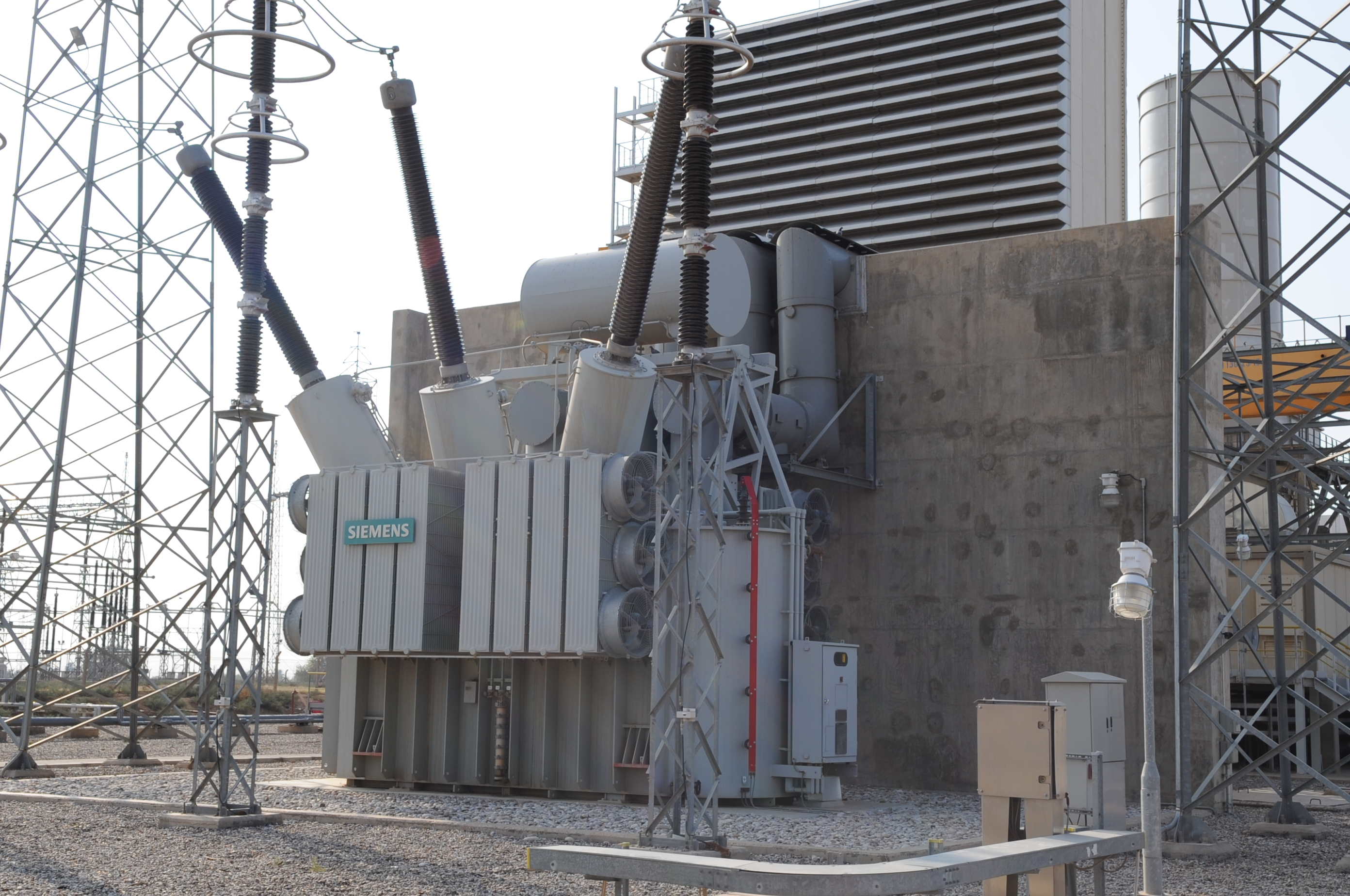 The Taza power plant, photographed Nov. 2, 2008, in Kirkuk, Iraq, is the largest and newest power plant in Kirkuk province. The power plant produces electricity for the Northern regions of Iraq.